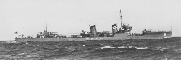 Imperial Japanese Navy destroyer Harukaze (Kamikaze-class) at Yokosuka Port.